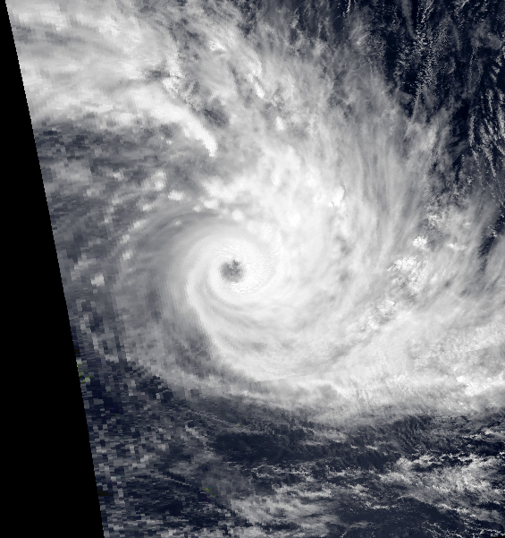 Tropical Cyclone Ofa on February 3, 1990